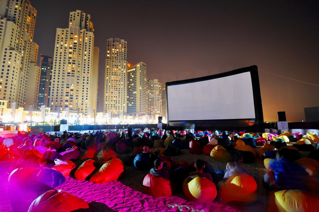 Dubai International Film Festival using an inflatable screen